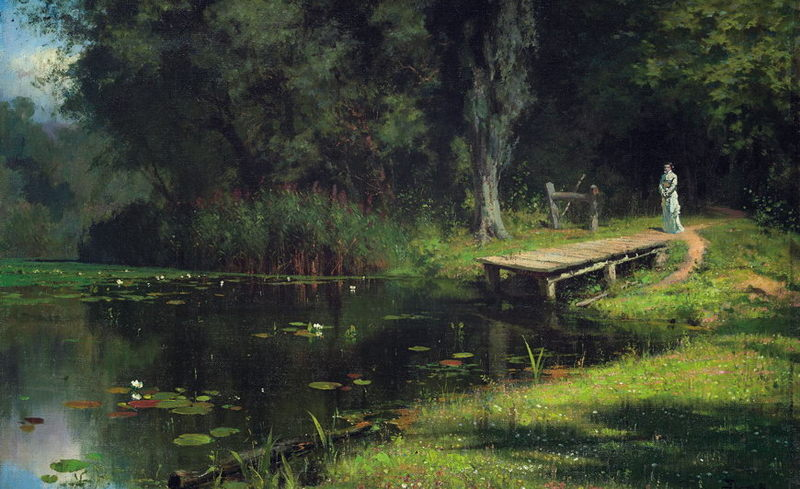 Overgrown pond (painting by Vasily Polenov, 1880, State Russian Museum, another version of his 1879 painting)